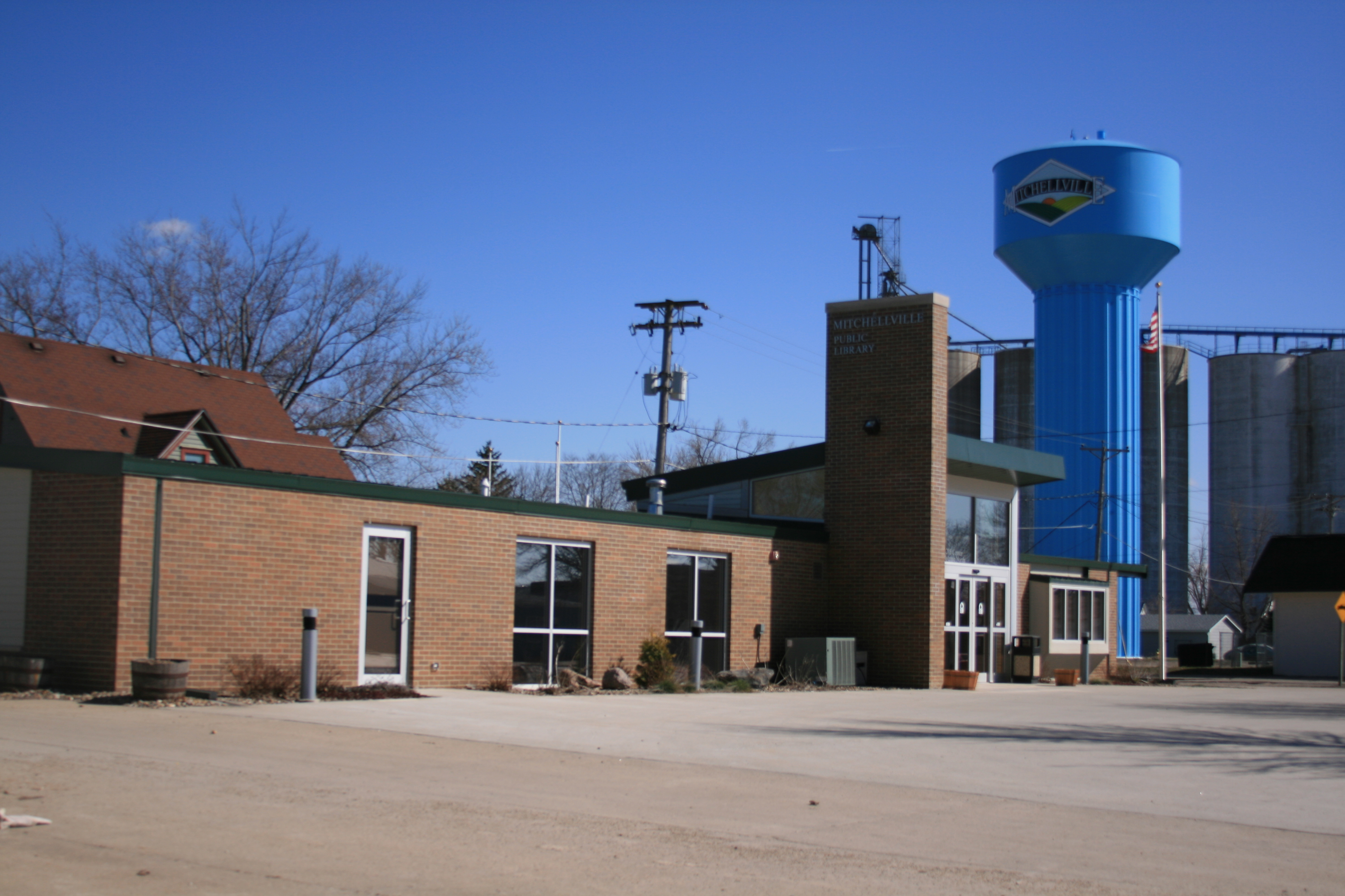 Library and water tower in Mitchellville Iowa